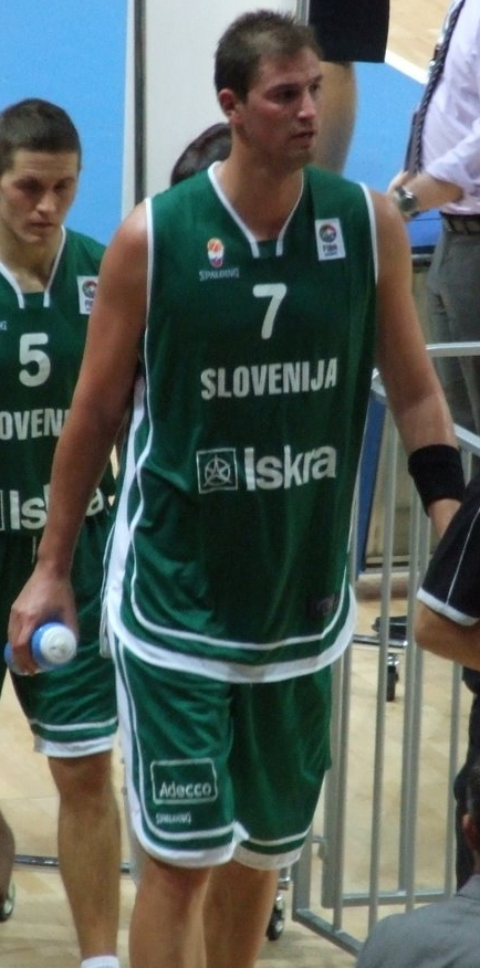 Slovenia vs. Great Britain at EuroBasket 2009.